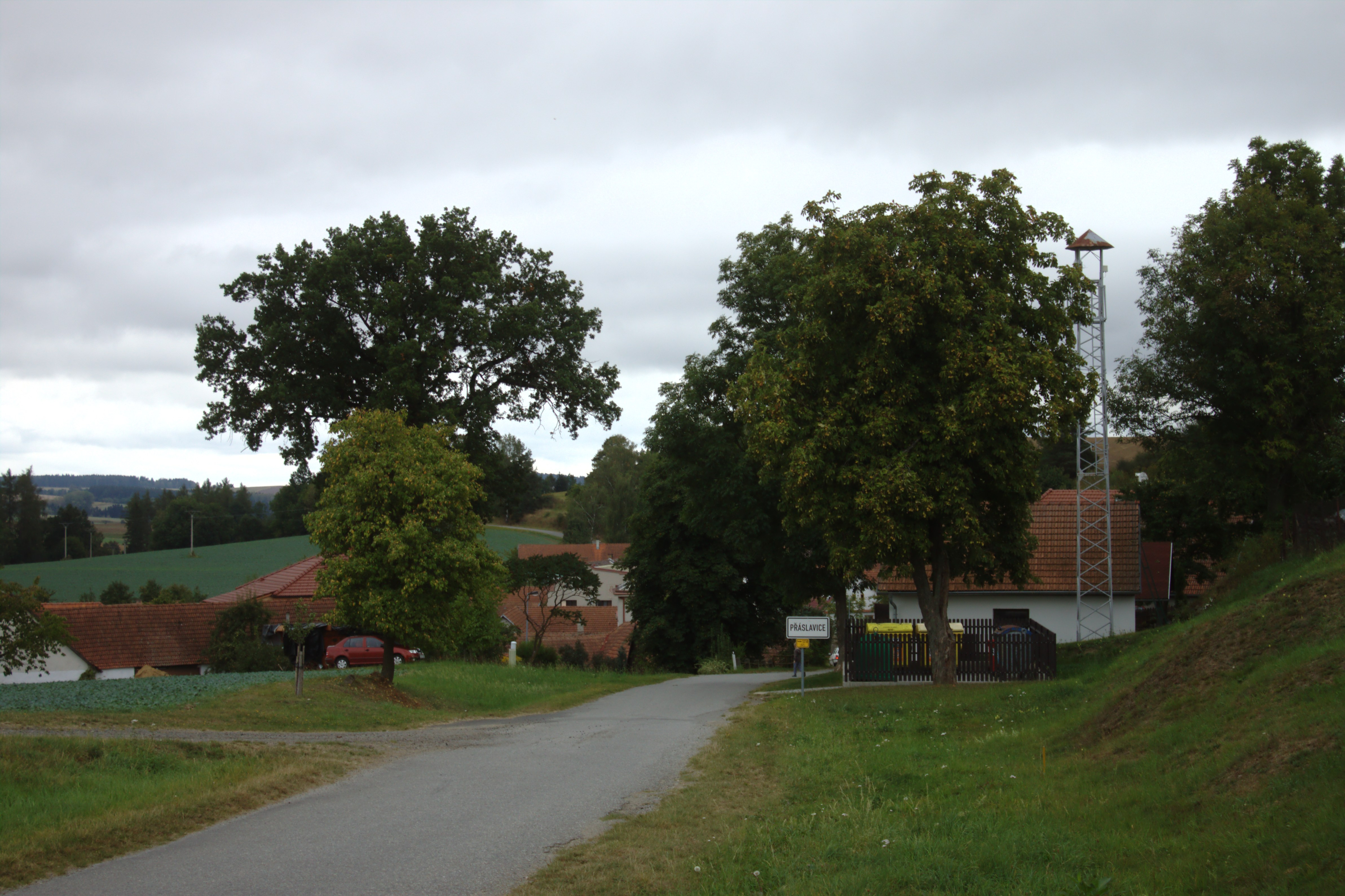 Western limit fo the village of Přáslavice, Vysočina Region, CZ